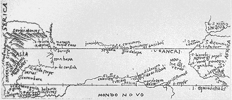 Bartolomeo Columbus map of the West Indies (1506)